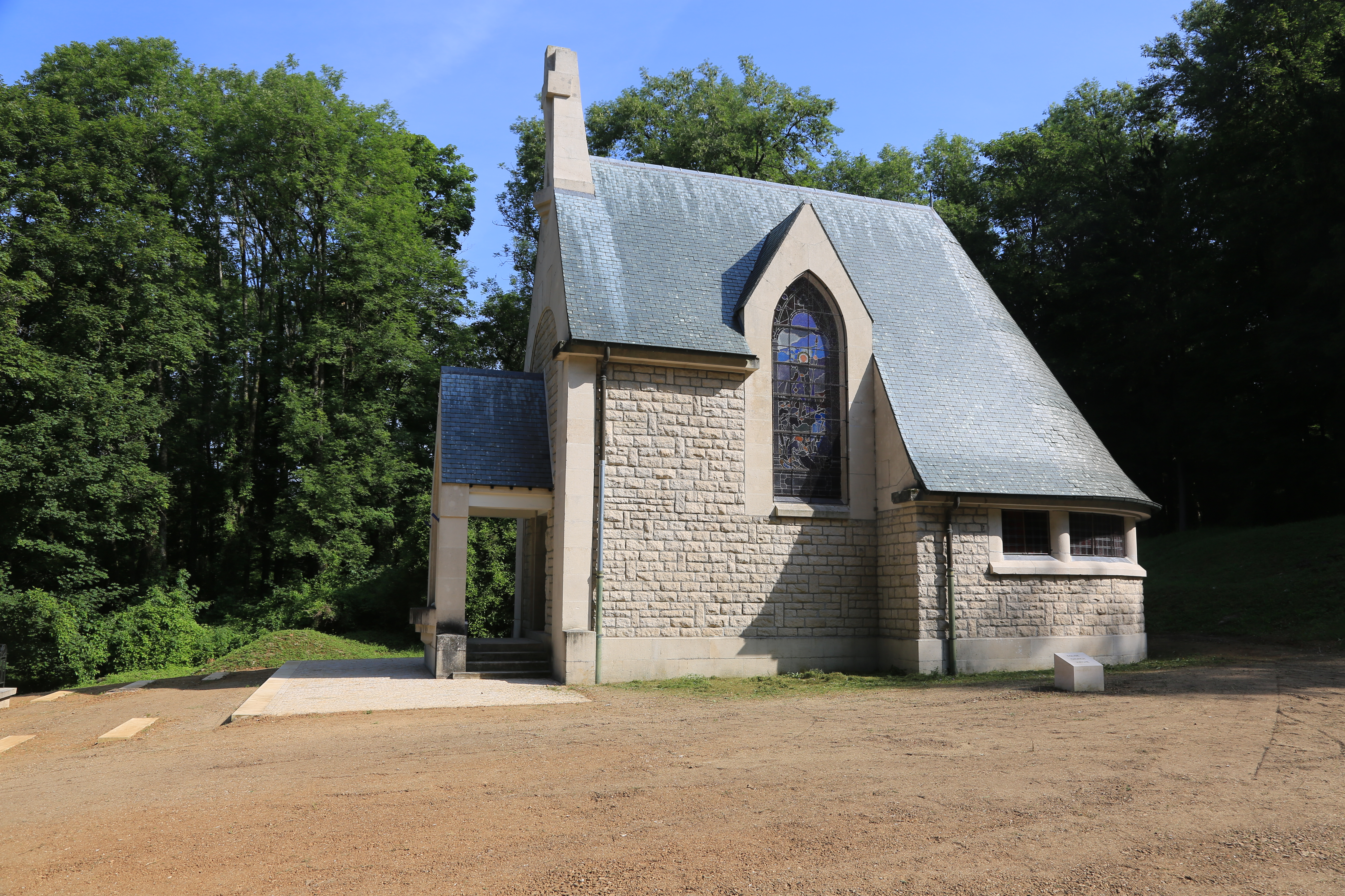 Memorial church in the village Beaumont-en-Verdunois that was destroyed in the first world war